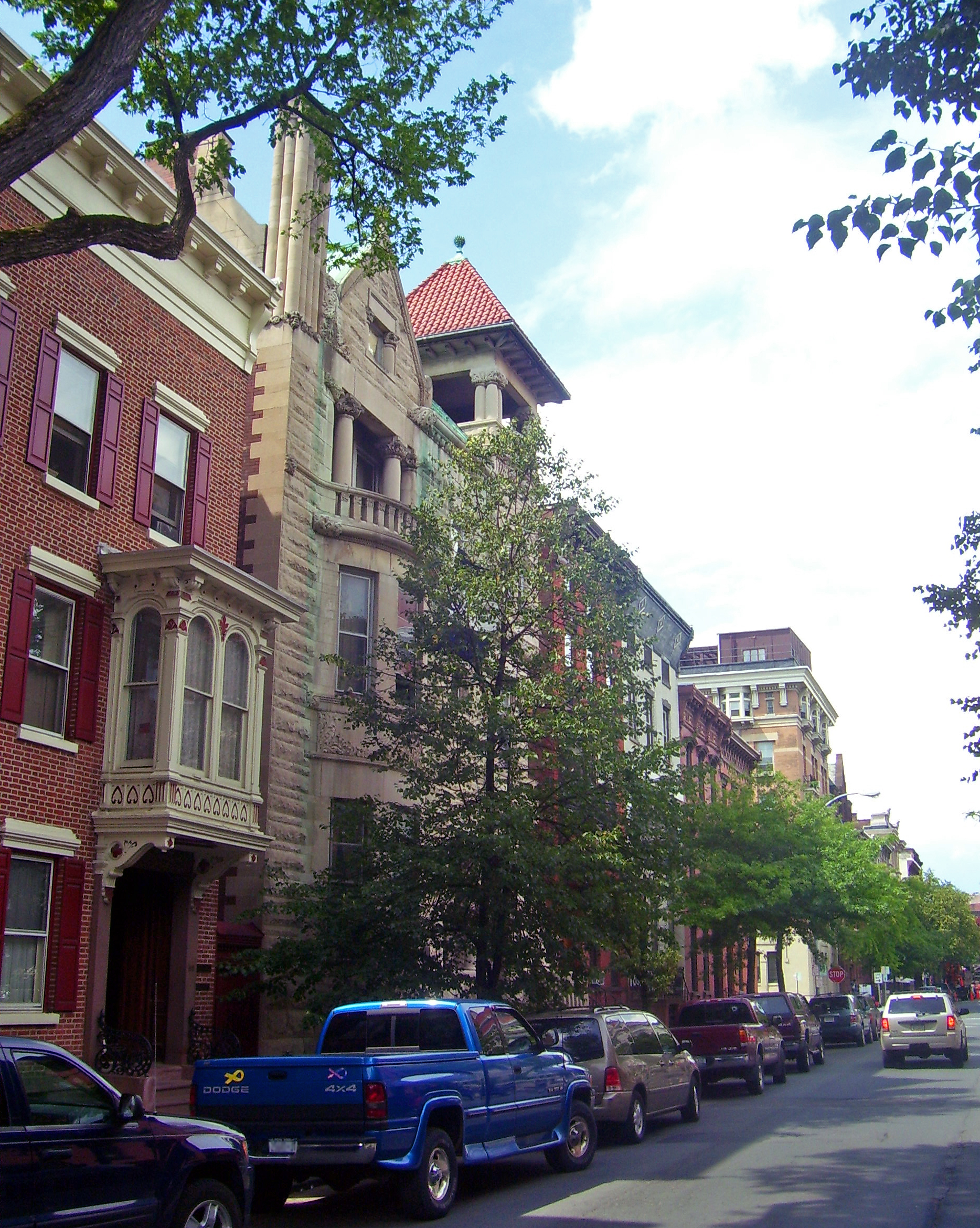 Second Street in Troy, NY, USA, part of the Central Troy Historic District